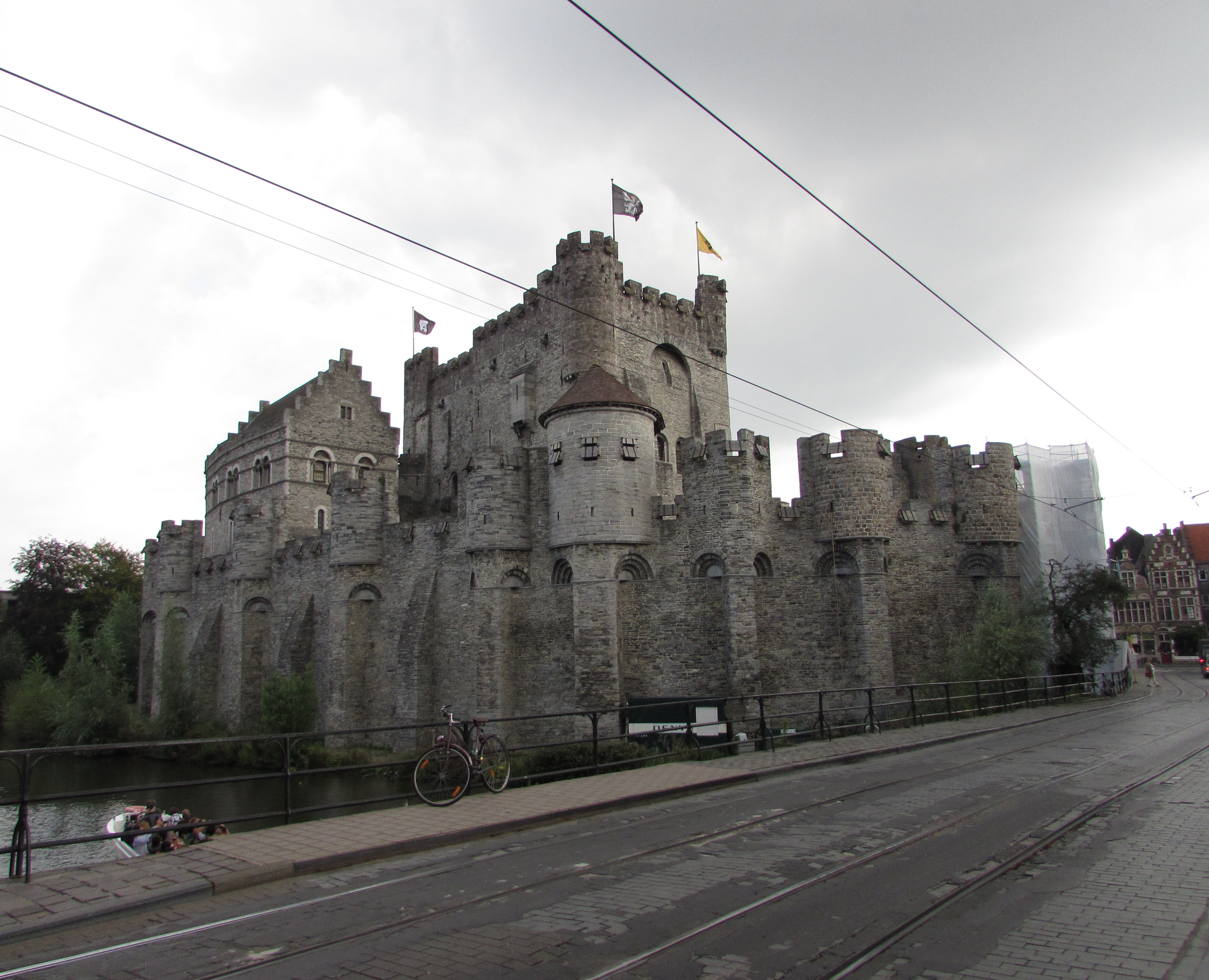 Gravensteen